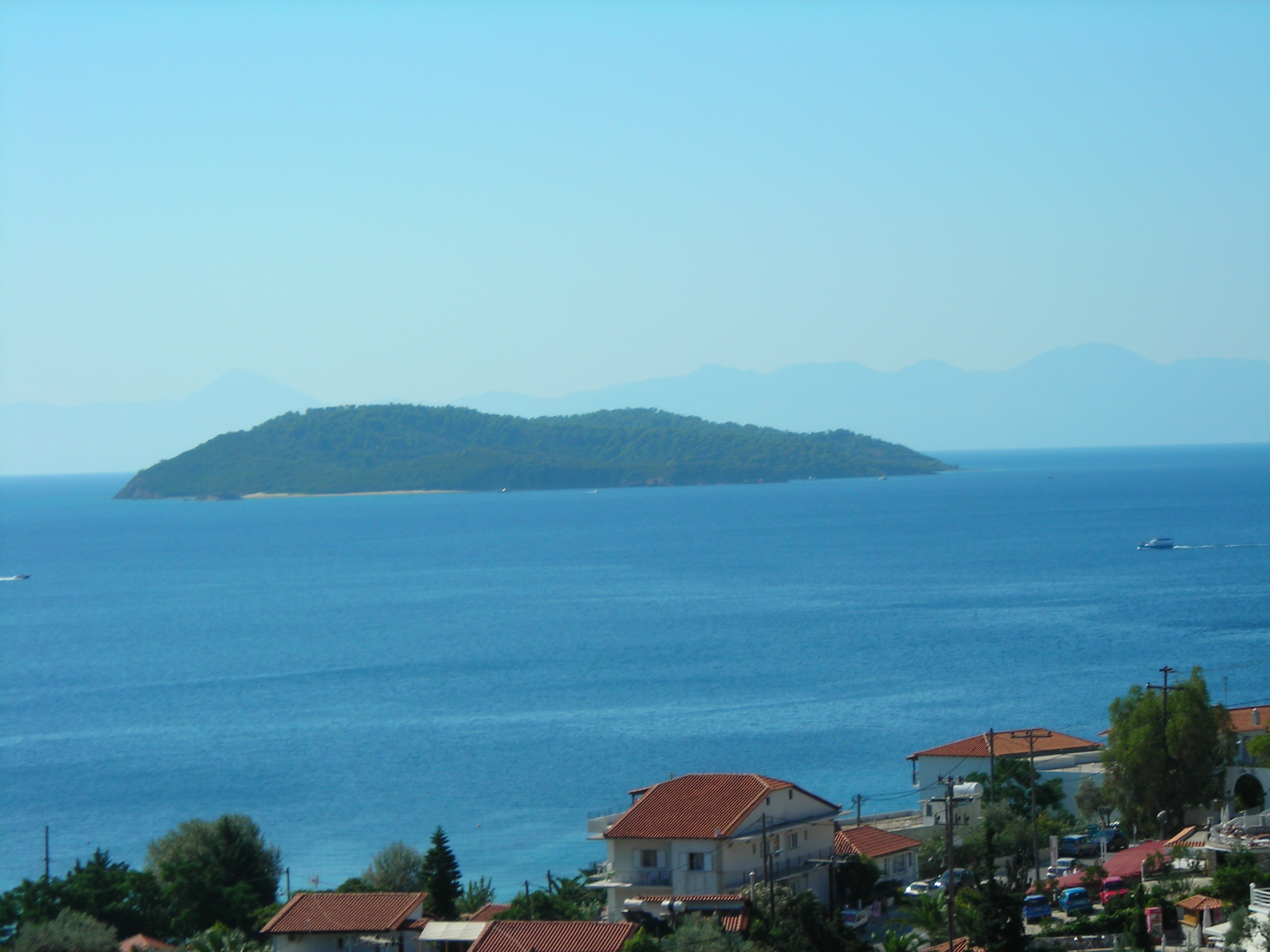 View of island Tsougria from Skiathos.